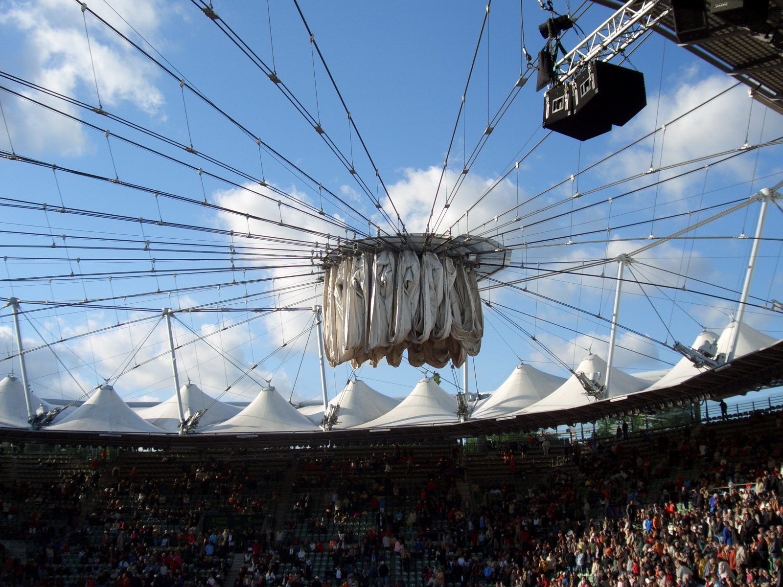 The Center Court's Sliding Roof (Am Rothenbaum tennis facilities, Hamburg)